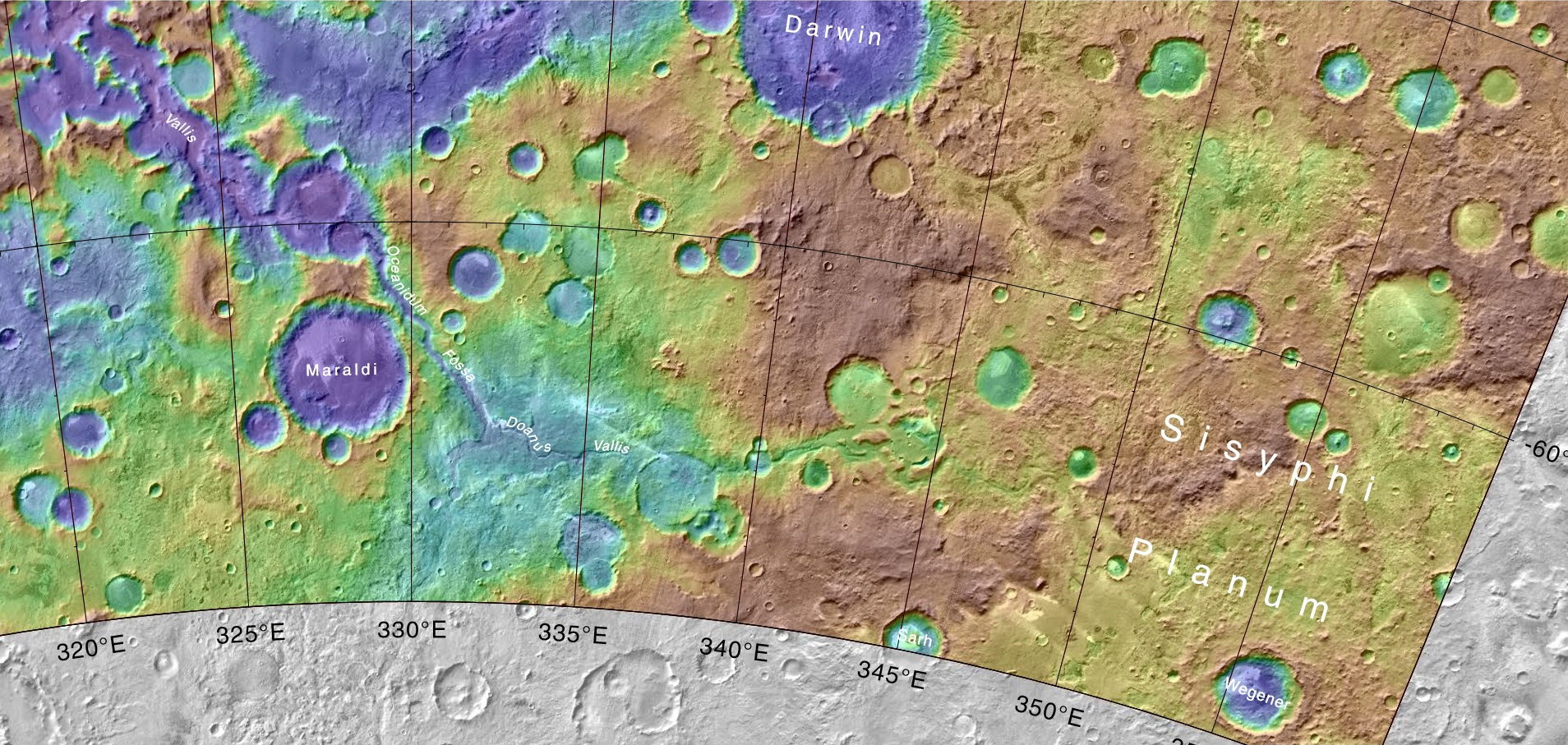 Topo map showing location of Wegener Crater and other nearby features